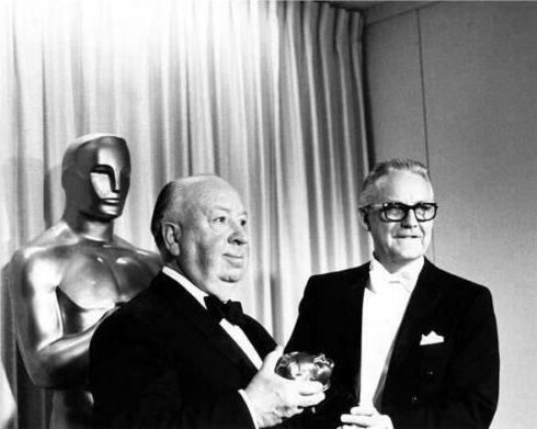 English film director Alfred Hitchcock with the Irving G. Thalberg Memorial Award (1968).